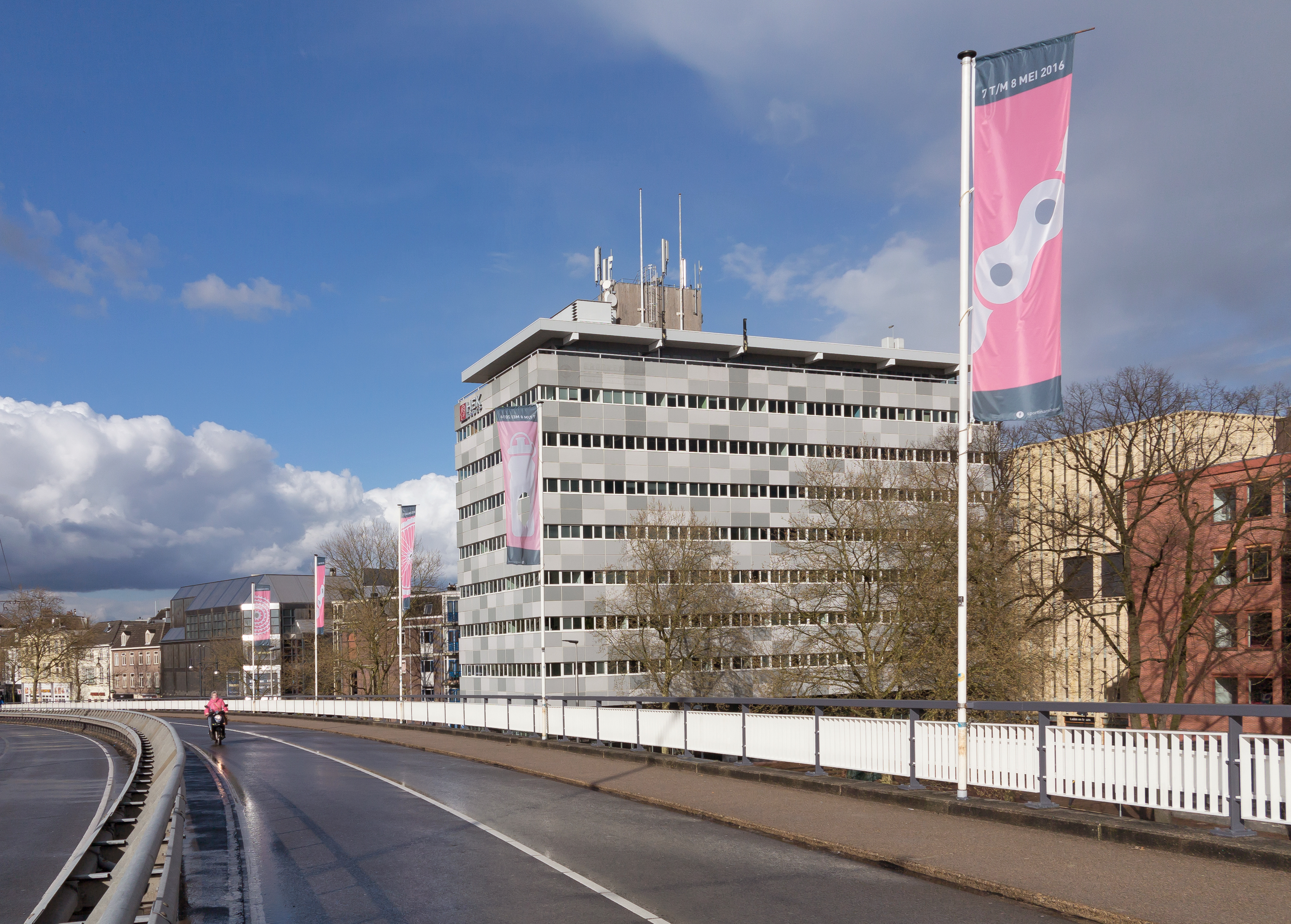 Arnhem, flags on the bridge (de Nelson Mandelabrug) for Giro d'Italia